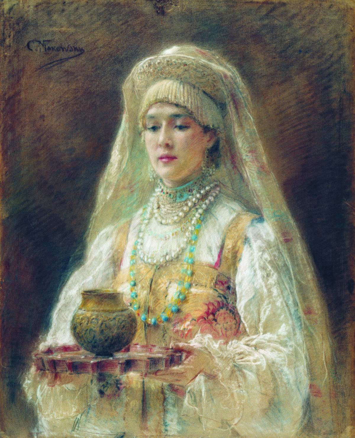 Cup of honey drink (mead)